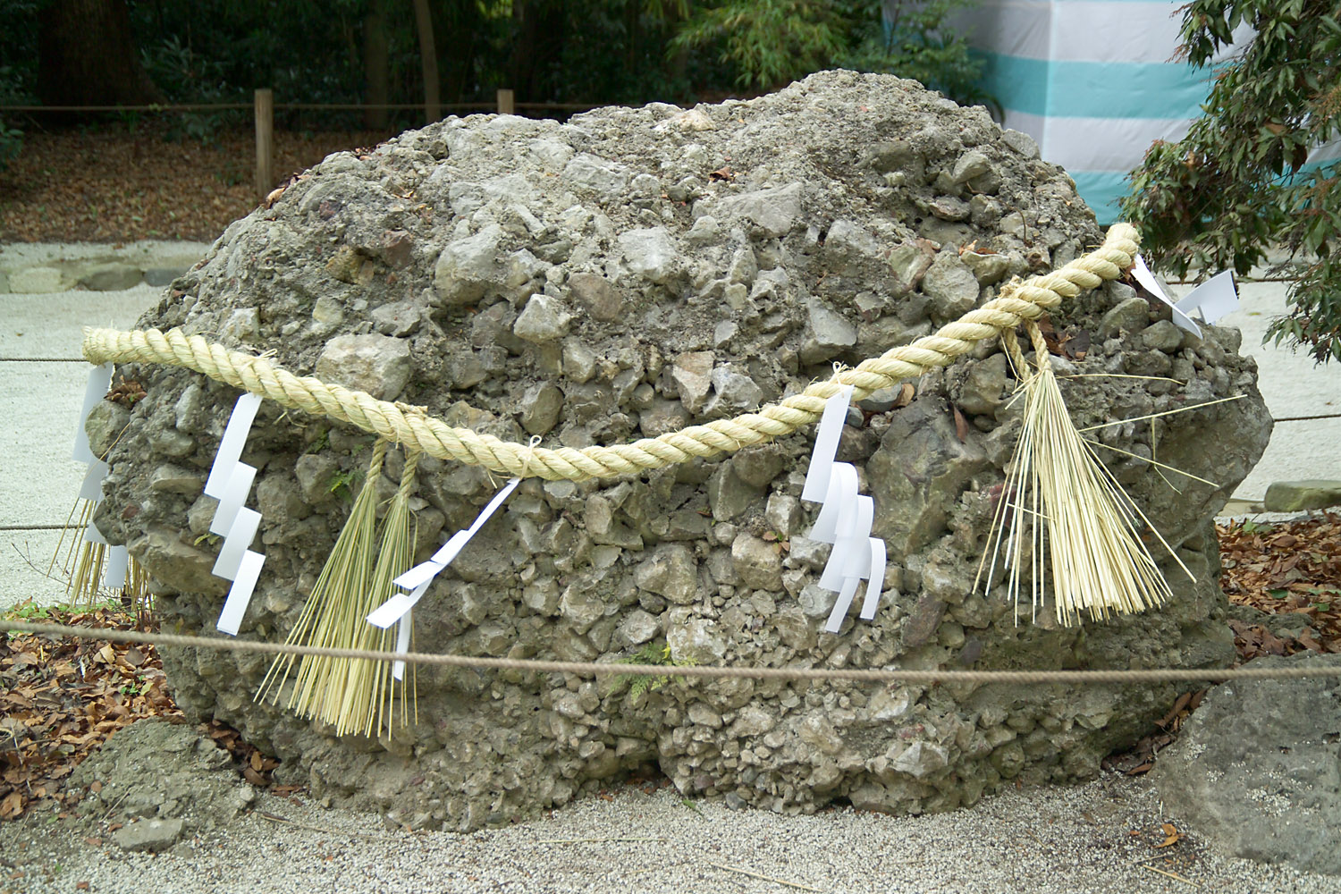 Sazare-ishi (さざれ石), a kind of boulder grown from pebbles, which is used as a symbol of national unity in Kimi ga Yo, the national anthem of Japan. This stone stands on the grounds of Shimogamo Shrine in Kyoto.